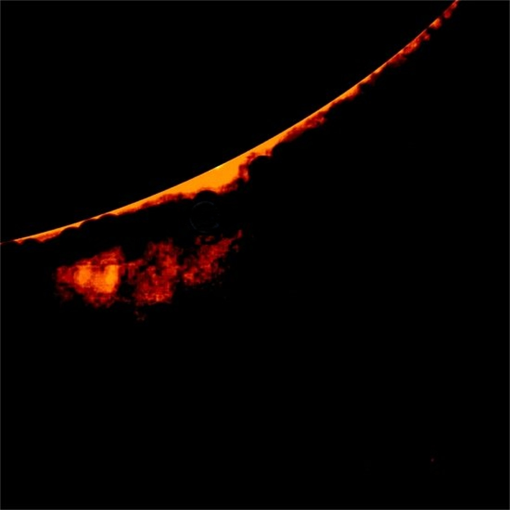 Detached Solar Prominence.The solar disk was blocked in PS for a better visual effect.